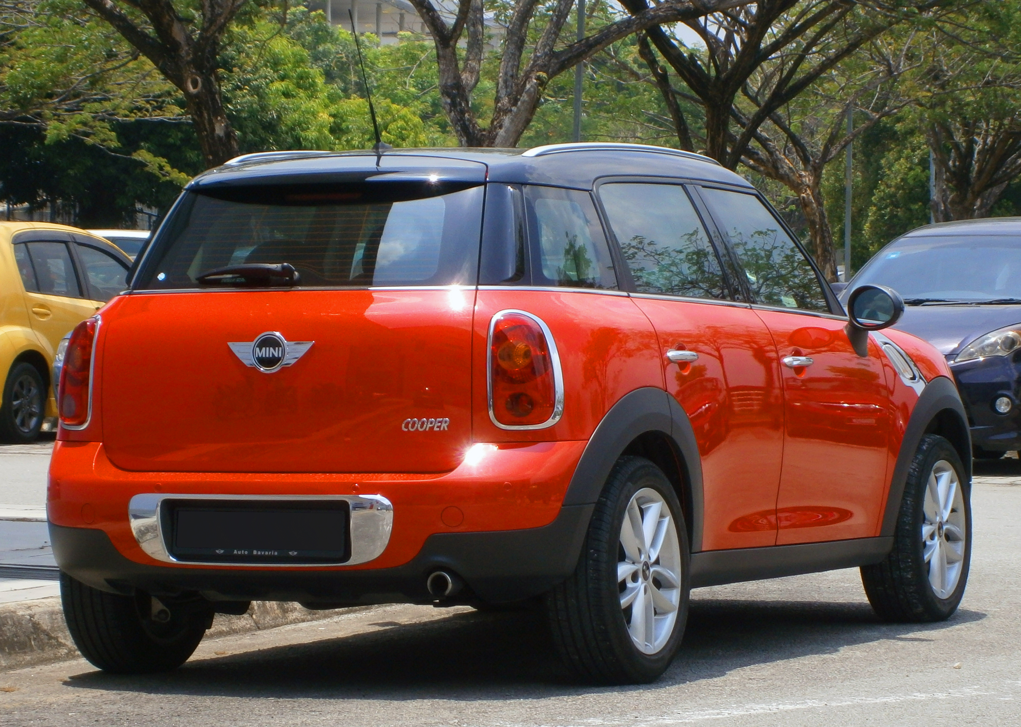 2012 Mini Countryman in Cyberjaya, Malaysia. Designed in Germany , Assembled in Malaysia